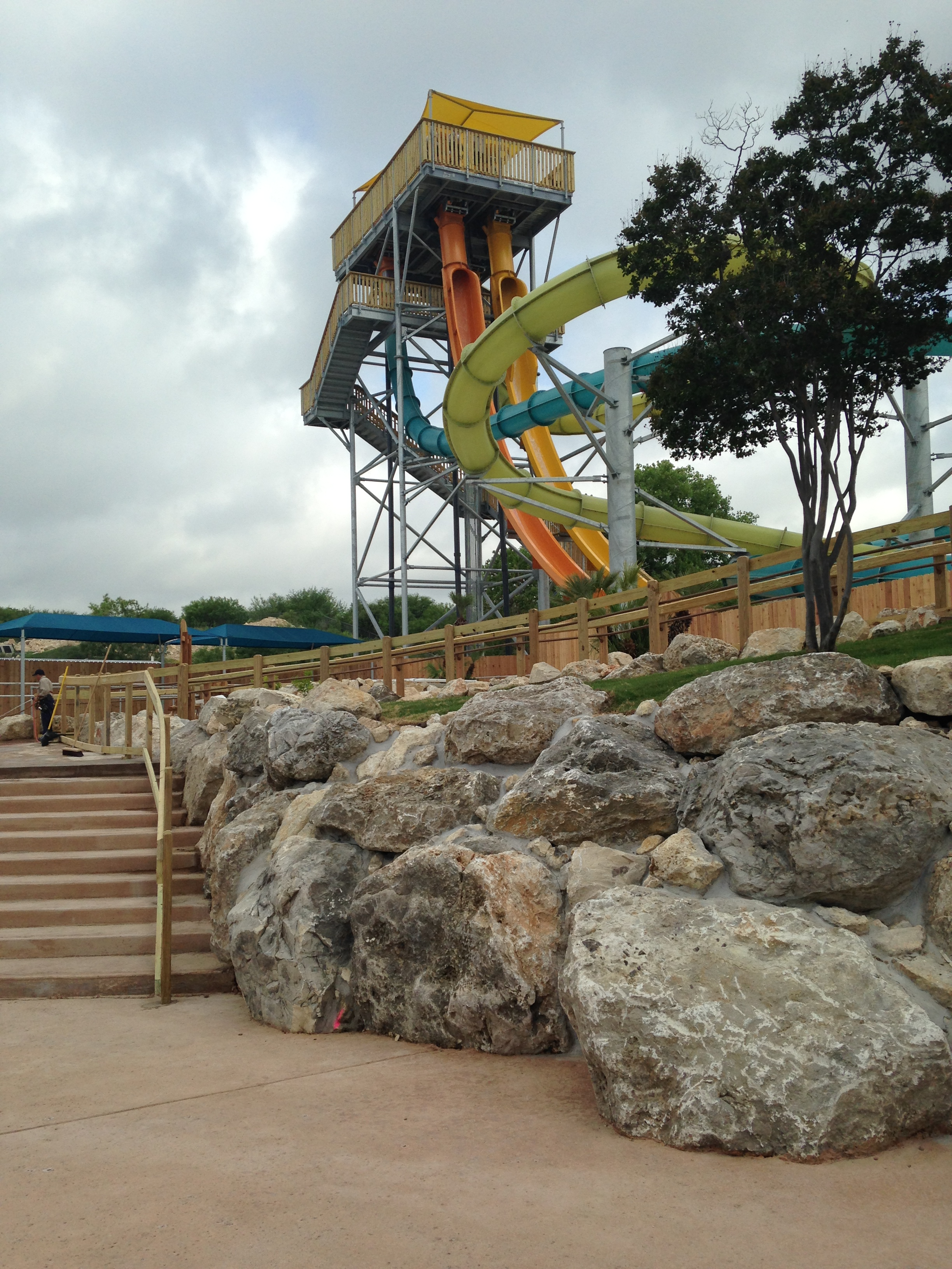 Bahama Blaster new in 2014 at Six Flags Fiesta Texas in San Antonio, TX. Photo taken on June 6, 2014 at the commercial shoot I was invited to attend.